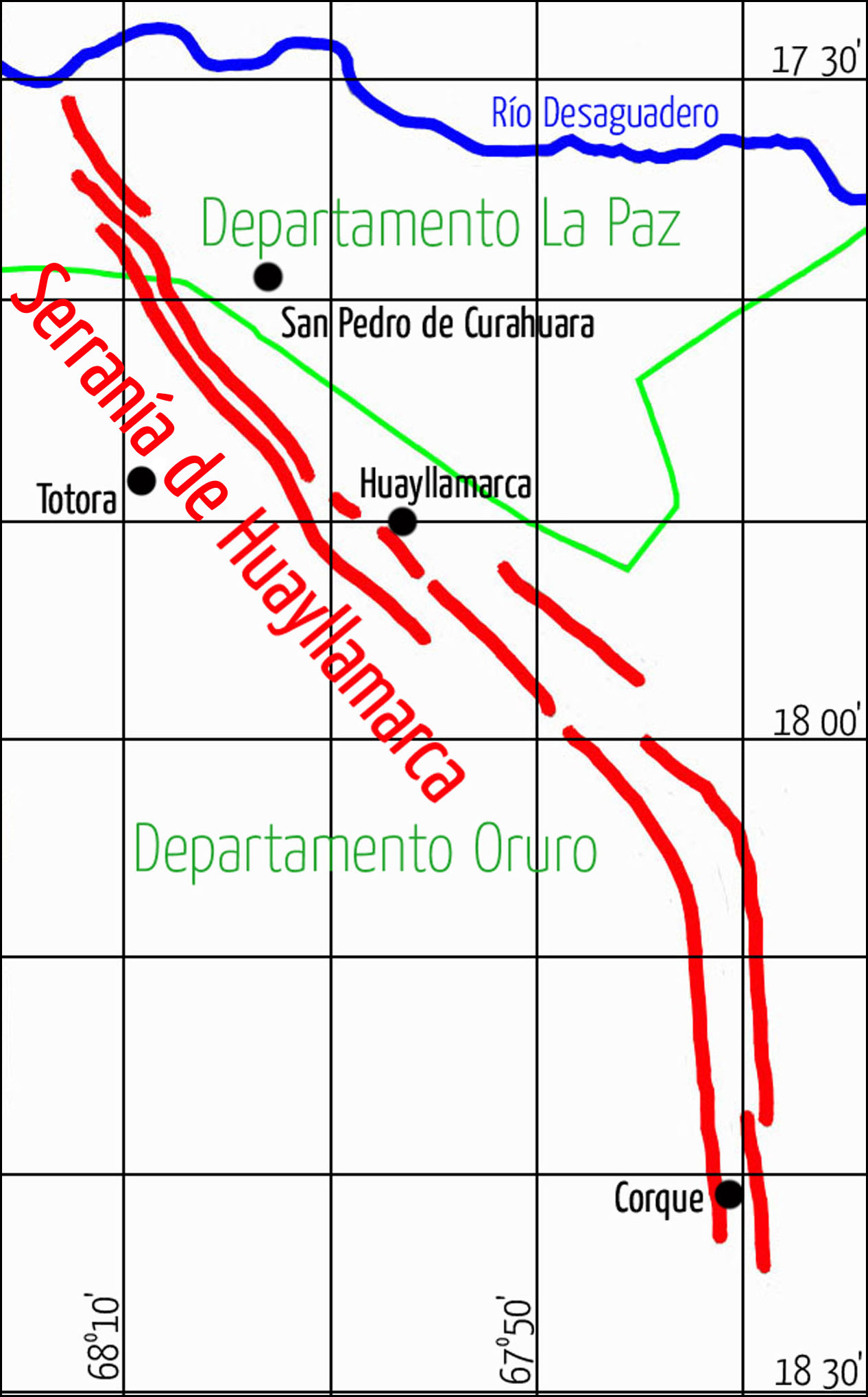 Serranía_de_Huayllamarca (Bolivia)